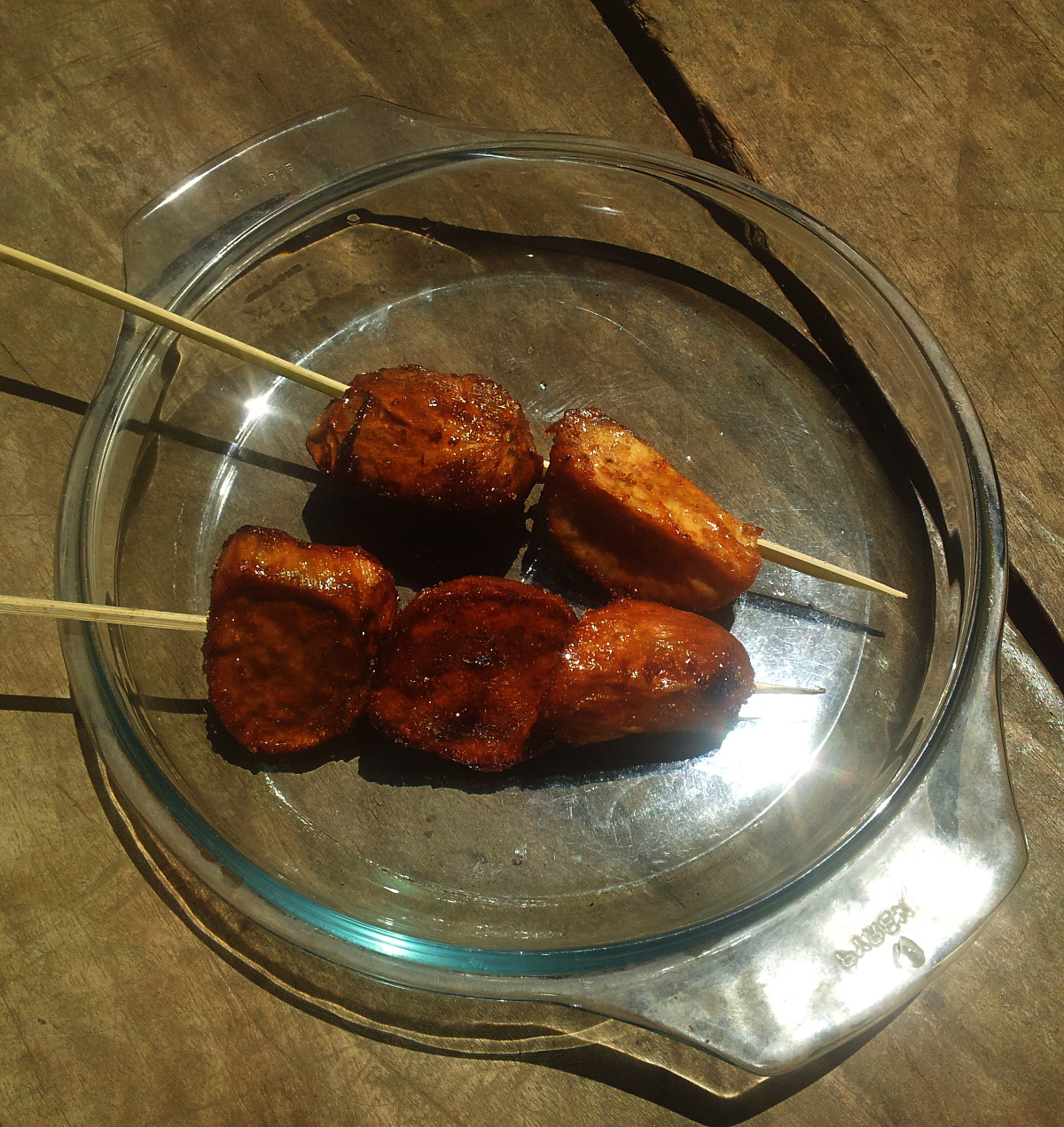 Camote cue is a popular snack food in the Philippines made from sweet potato (camote). Slices of camote are coated with brown sugar and then fried to cook the potatoes and to caramelize the sugar.